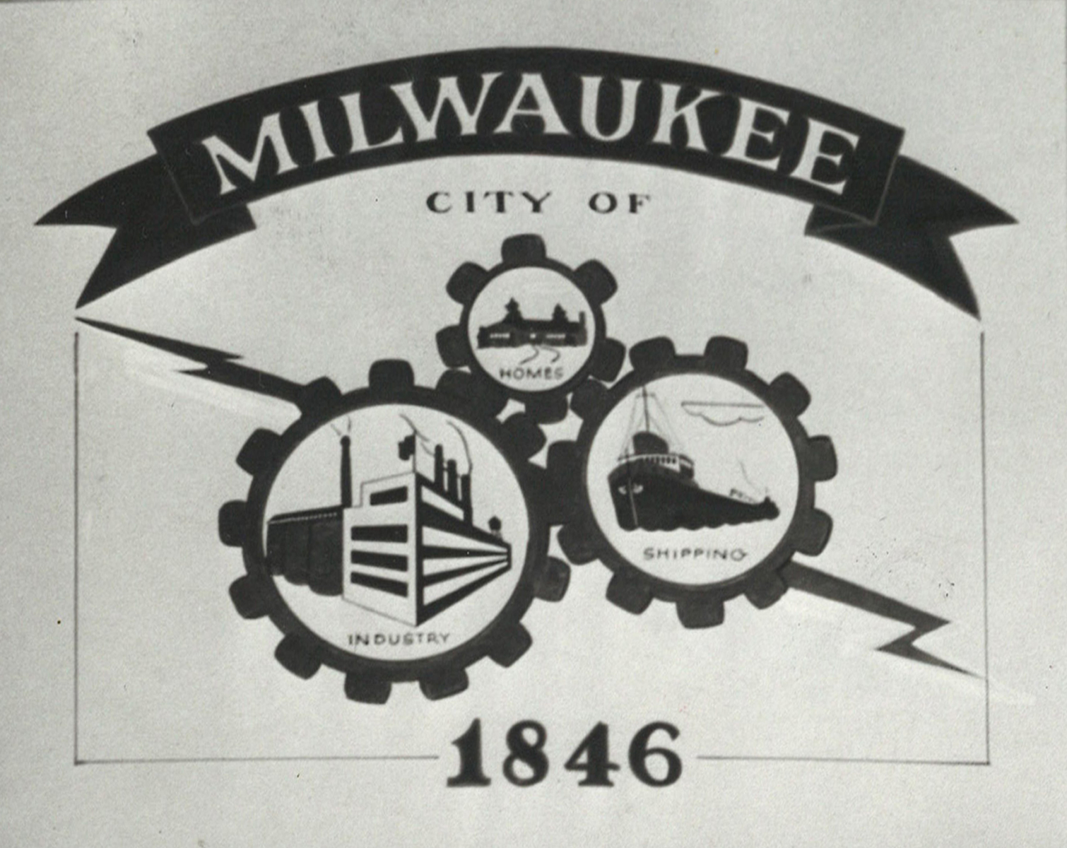 A black-and-white rendition of the winning design in Milwaukee's 1950 flag design contest. It features a ribbon with the name "Milwaukee" over three gears labeled "HOMES", "INDUSTRY", and "SHIPPING". This design was never officially adopted by the city, though some elements were later re-purposed for Milwaukee's first official flag in 1954.